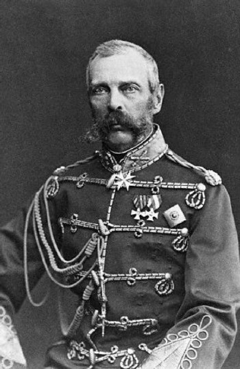 Photo of Tsar Alexander II